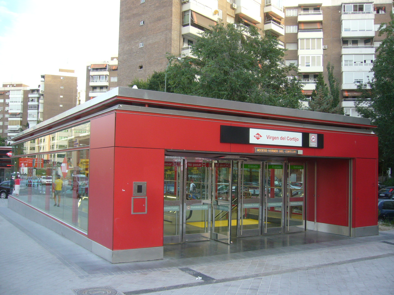 Entrance to Virgen del Cortijo metro stop, in Madrid